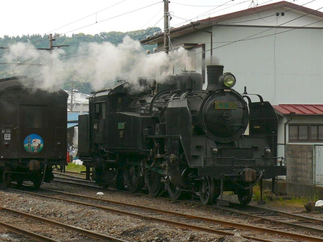 Oigawa Railway type C11 190 steam locomotive (Japan). Taking a picture from platform of Sincanaya-Station of Oigawa Railway line. 大井川鐵道C11 190が新金谷駅構内で入換中。 大井川鐵道大井川本線新金谷駅にて、ホームより撮影。